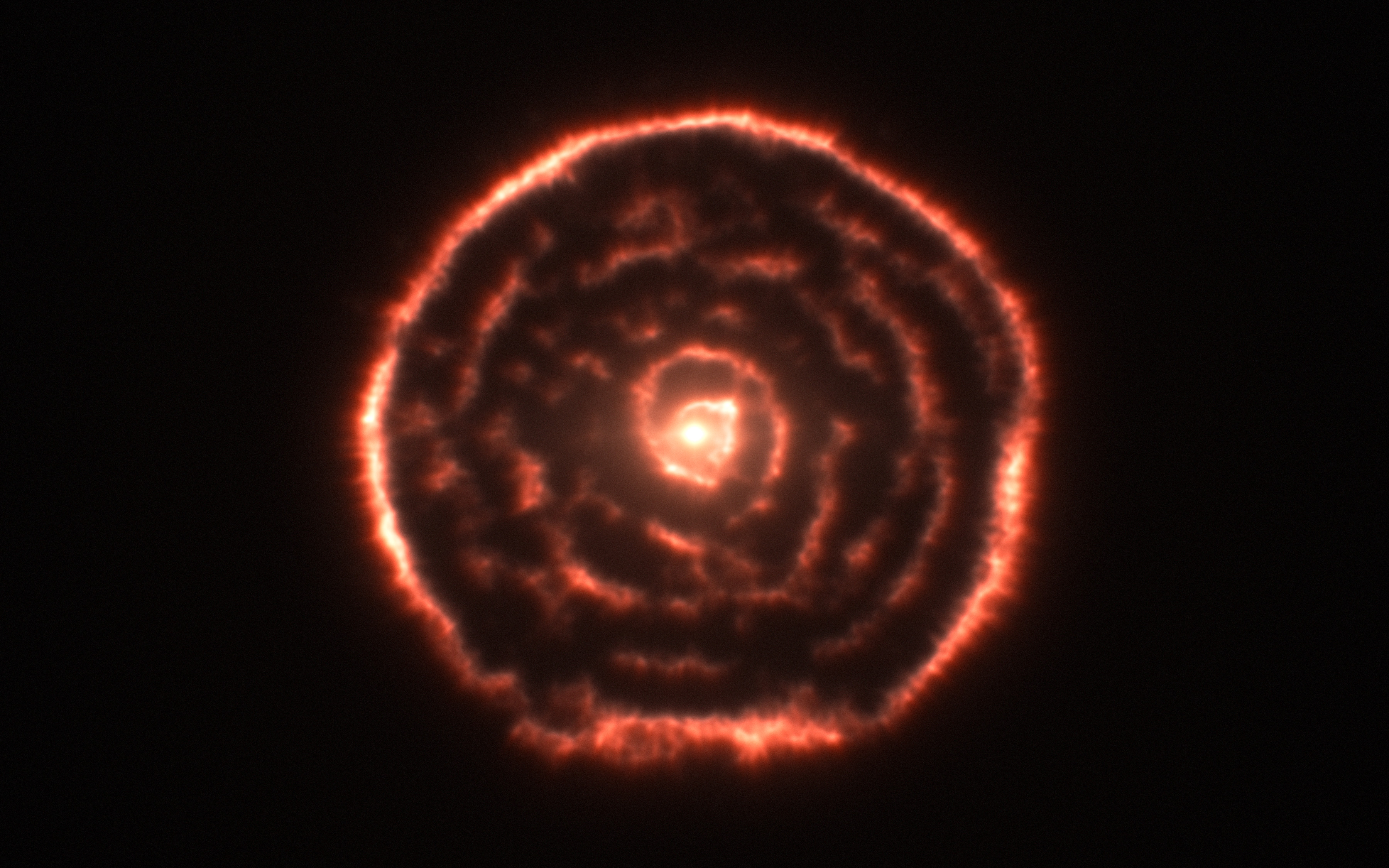 Observations using the Atacama Large Millimeter/submillimeter Array (ALMA) of the European Southern Observatory (ESO) have revealed an unexpected spiral structure in the material around the old star R Sculptoris in the constellation Sculptor. This feature has never been seen before and is probably caused by a hidden companion star orbiting the star. This slice through the new ALMA data reveals the shell around the star, which shows up as the outer circular ring, as well as a very clear spiral structure in the inner material.